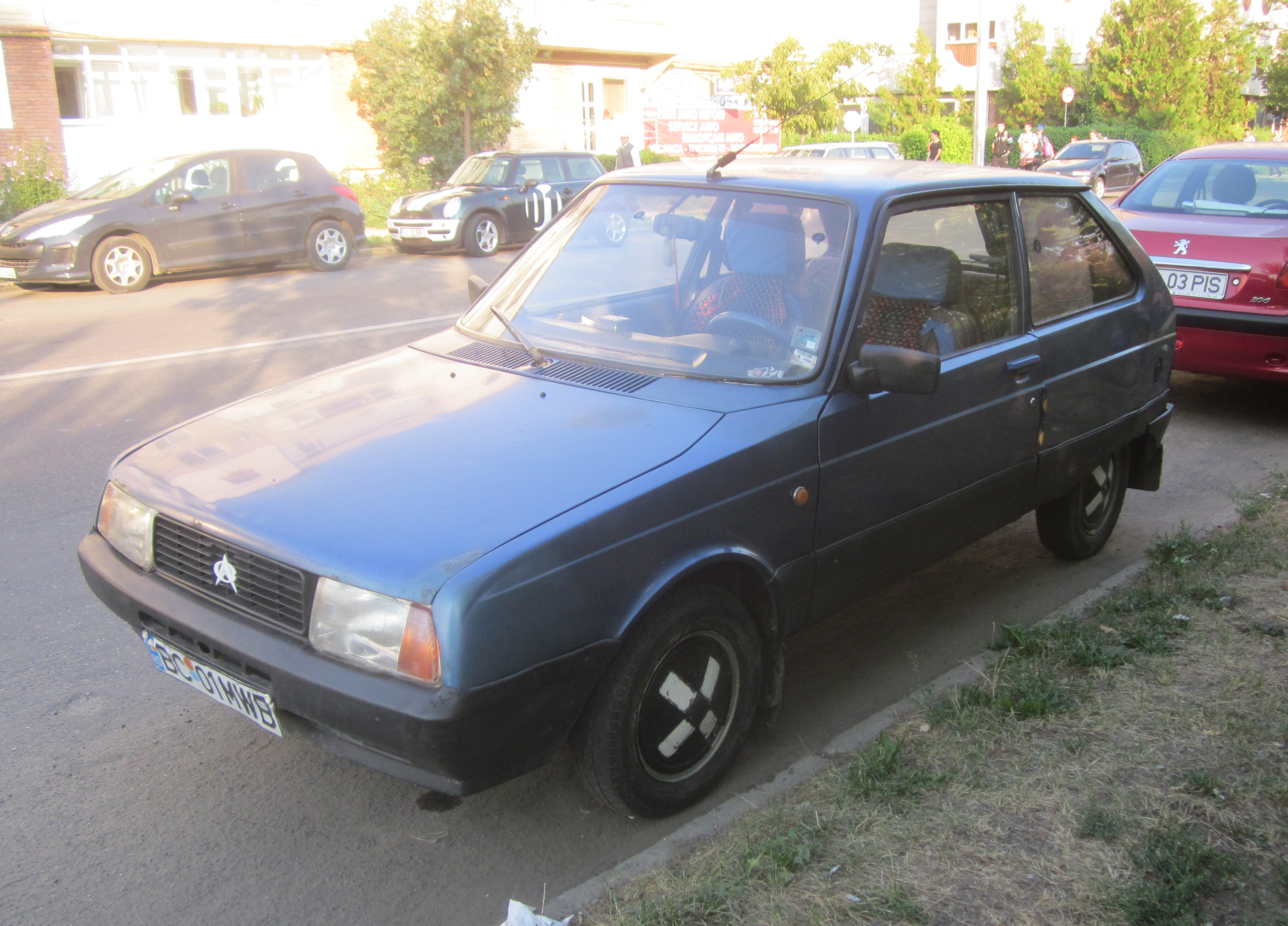 An Oltena Club 11 RL (former Oltcit) front